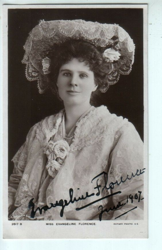 Rotary postcard of the American-born soprano Evangeline Florence (1867-1928) in 1907